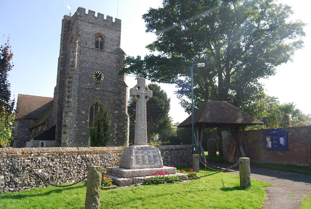 St Mary's Church & war memorial, Chartham